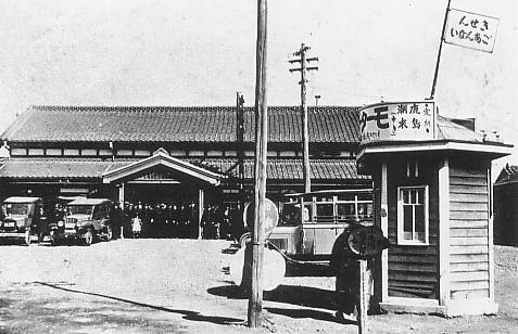 Sawara Station in 1935